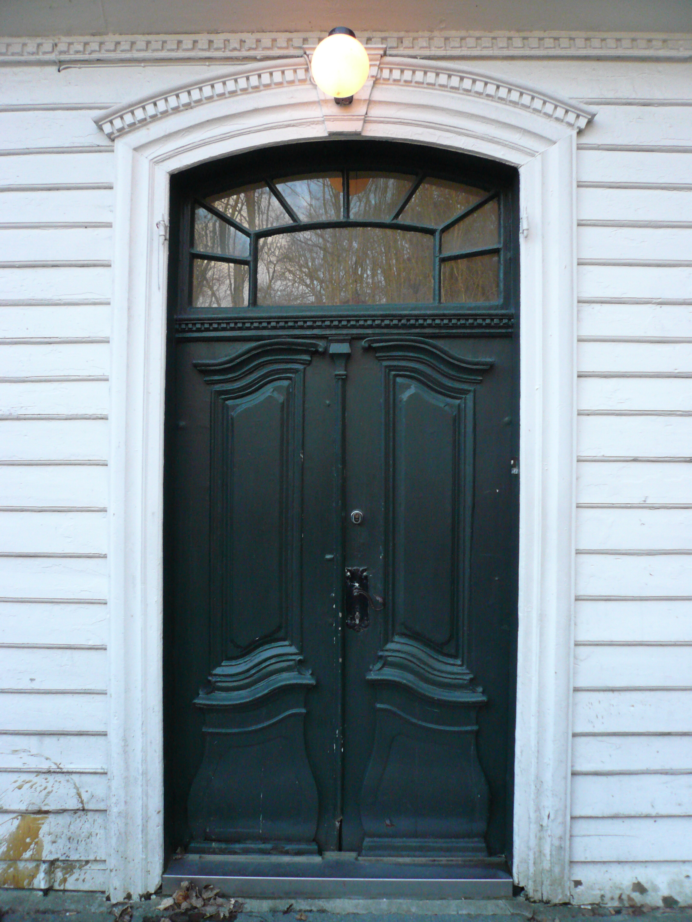 Door at Lønningen, Bergen, Norway